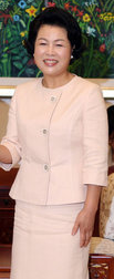 Mrs. Laura Bush meets with Mrs. Kim Yoon-ok, wife of the President of the Republic of Korea, during a coffee in Seoul on August 6, 2008. White House photo by Shealah Craighead.